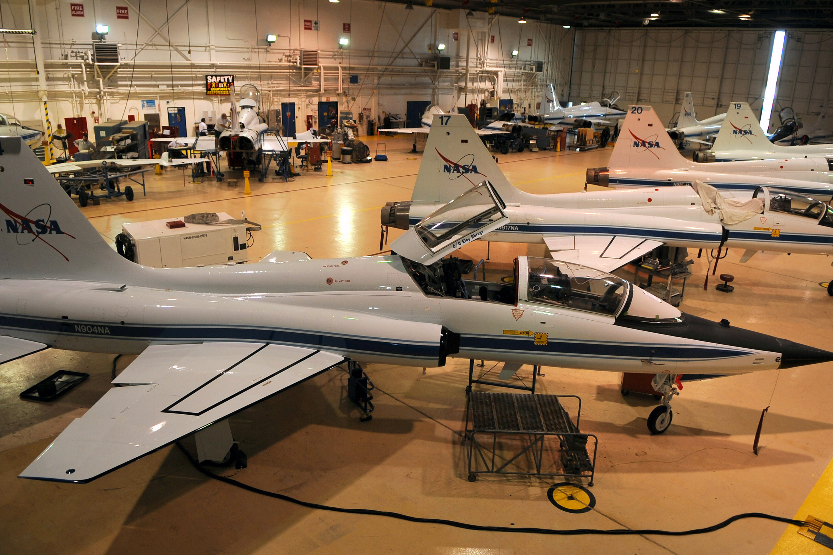 PARKED FOR MAINTENANCE - The National Aeronautics and Space Administration's T-38s are parked inside a maintenance hangar at Ellington Field, Texas.